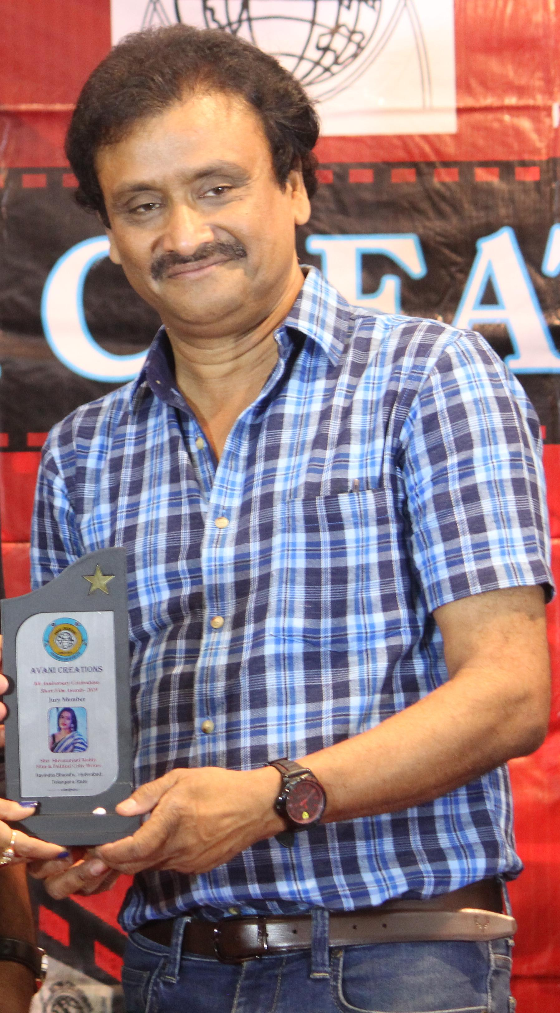 Neelakanta Telugu Film Director in Paidi Jaoraj Preview Theatre, Ravindra Bharathi